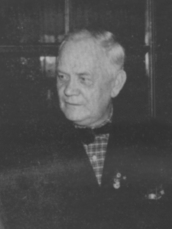 Hans Marchwitza (June 25, 1890 – January 17, 1965) was a German writer, proletarian poet, and Communist, photographed at literary meeting in Katowice, Poland.